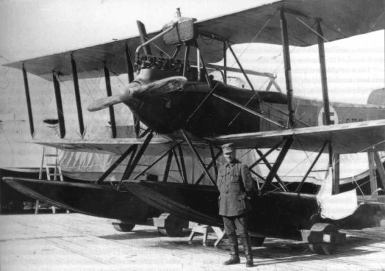 Friedrichshafen FF49C at Sortavala, Finland ~1918